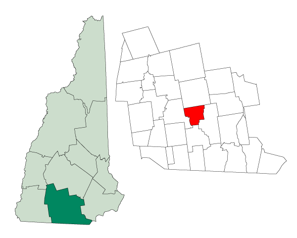 Map of a municipality in Hillsborough County, New Hampshire